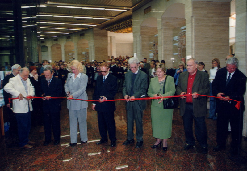 Boris Parygin at thу opening of Russian National Library, Saint-Petersburg, 2003